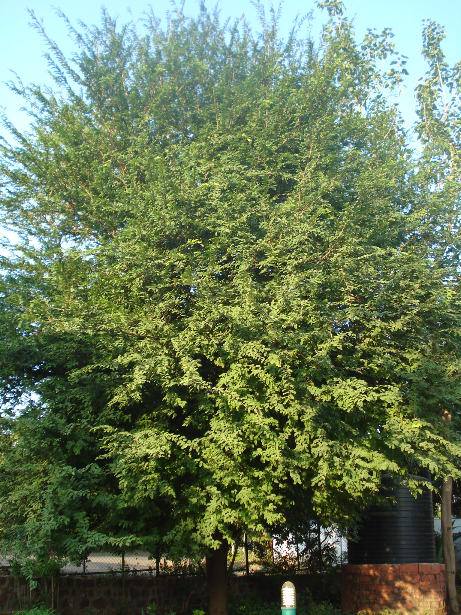 Imli Tamarindus indica tree at Nandan Kanan Park Bhopal